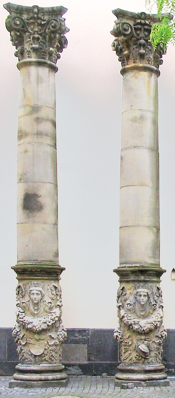 Neues_Rathaus_in_Düsseldorf_(Torso)_Detail,_erbaut_1884_von_Stadtbaumeister_Eberhard_Westhofen,_zwei_Säulen_vom_Rathausturm.jpg